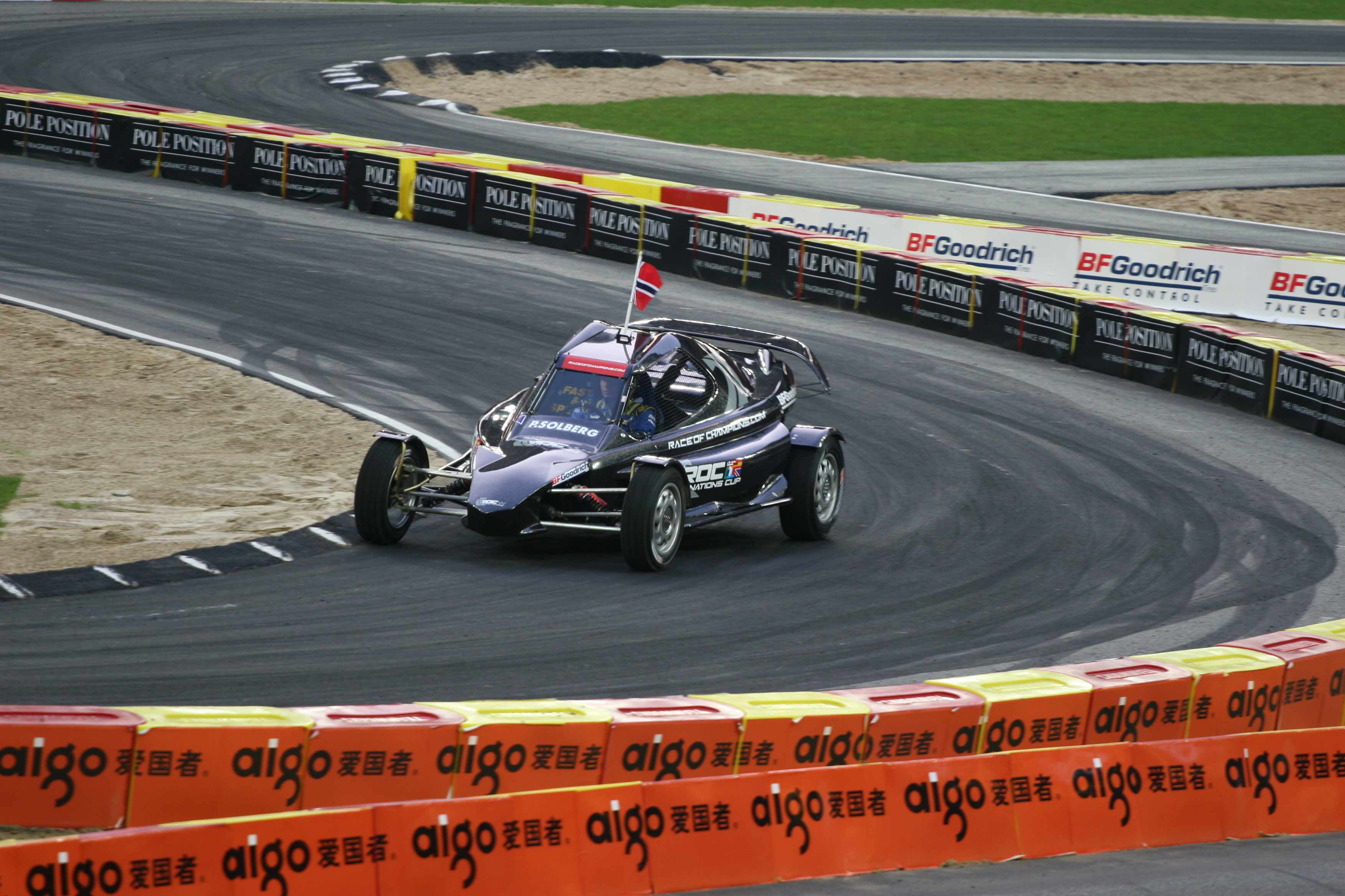 Petter Solberg driving the ROC car at the 2007 Race of Champions at Wembley Stadium.